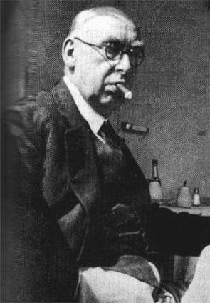 Rodolphe Lemoine, born Rudolf Stallmann (1871-1946): As an agent of the French Secret Service he was among other things involved in procuring the plans and codebooks for the German Enigma machine prior to World War II.